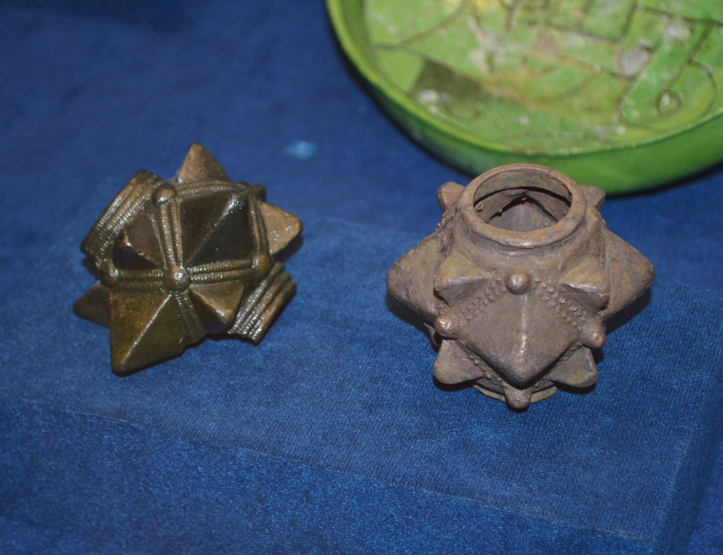 Bronze mace heads, Kievan Rus', 12-13 c.